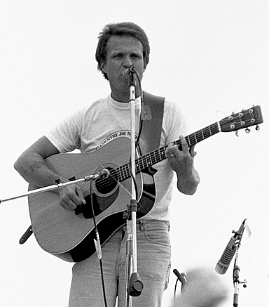 Country Joe McDonald performing in the band Country Joe and the Fish. Woodstock Reunion, 9/7/79. Parr Meadows, Ridge, NY